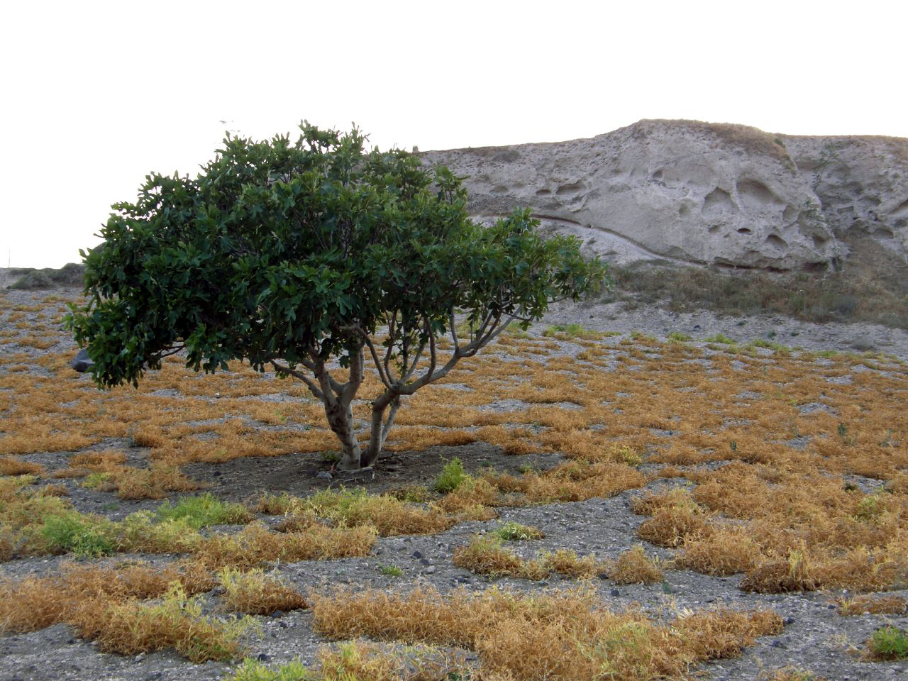 Lonely Ficus carica on the road to Vlihada, Santorini.